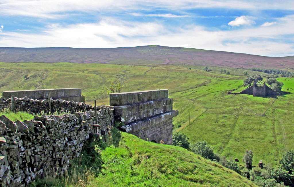 Belah Viaduct (demolished) NE abutment (near) looking across the valley towards the SW abutment